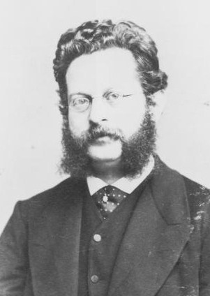 Sigismund Kohn-Speyer (1830-1895), merchant in Frankfurt (Main)